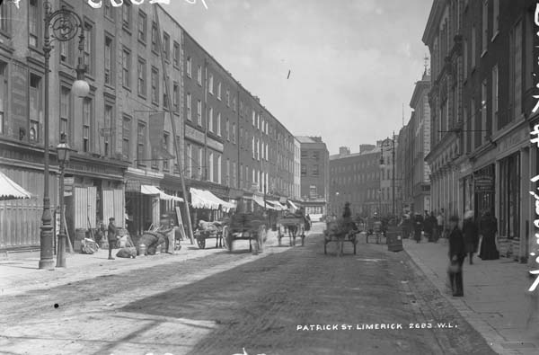 Photograph taken between 1880 and 1914 Part of: National Library of Ireland Lawrence Collection. For more photographs in this collection see National Library of Ireland catalogue: Reference number: L_CAB_02683